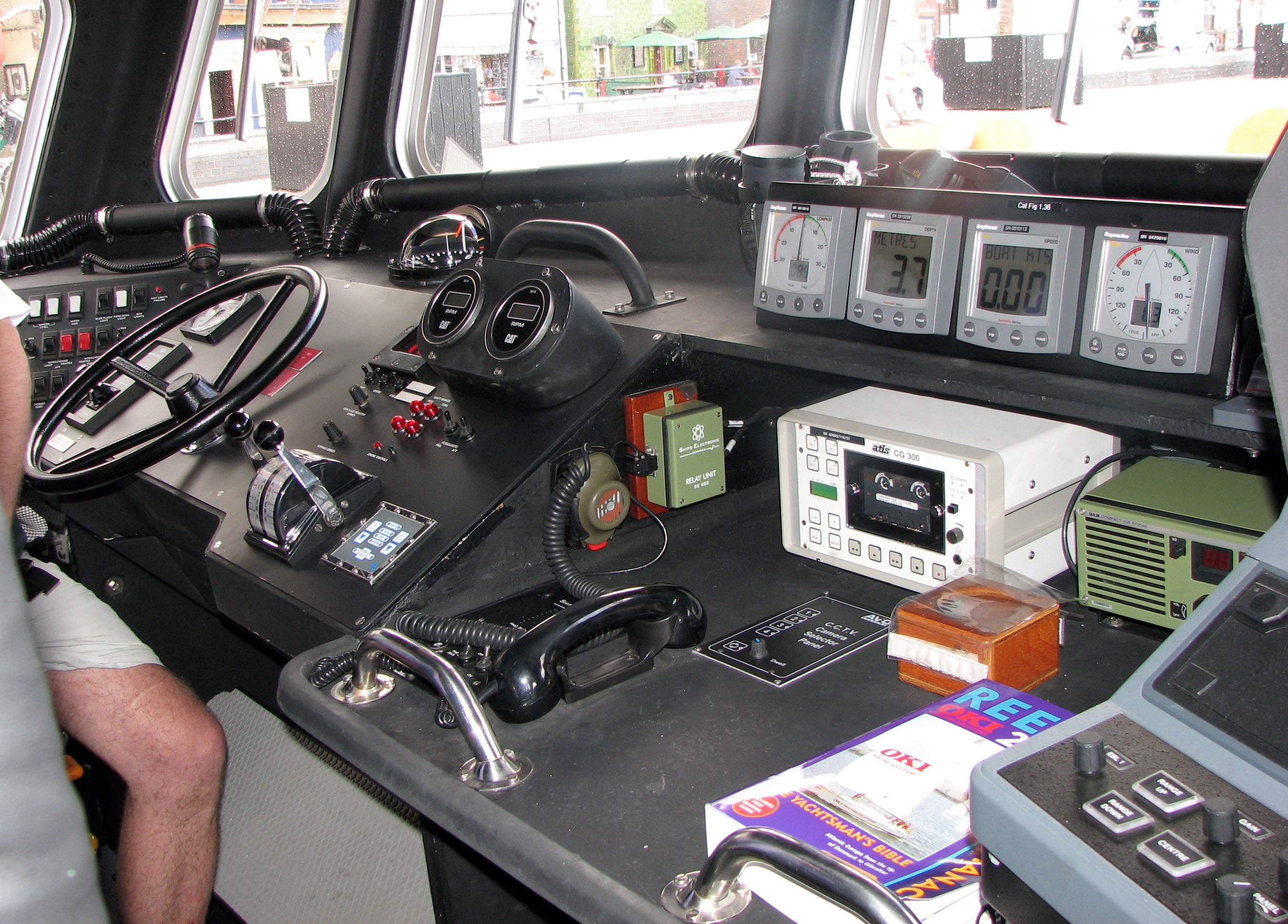 Part of the main control panel of a Severn class lifeboat, in Poole Harbour, Dorset, England. There is a second (repeat) panel on the open top deck. Severn is the largest class of UK lifeboat, at 17 metres long.